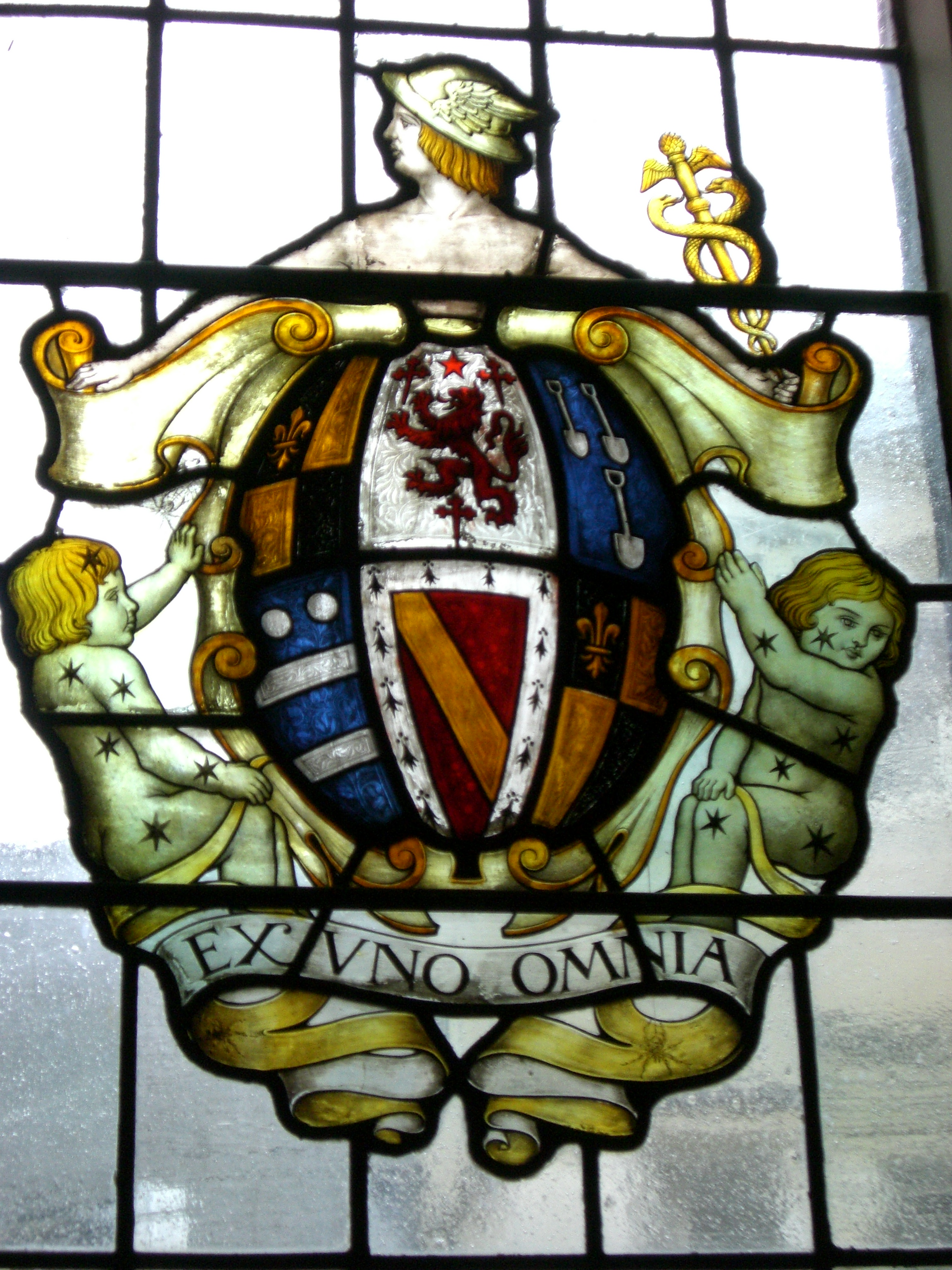 Stained glass window in the Museum of the History of Science, showing the coat of arms of Elias Ashmole.